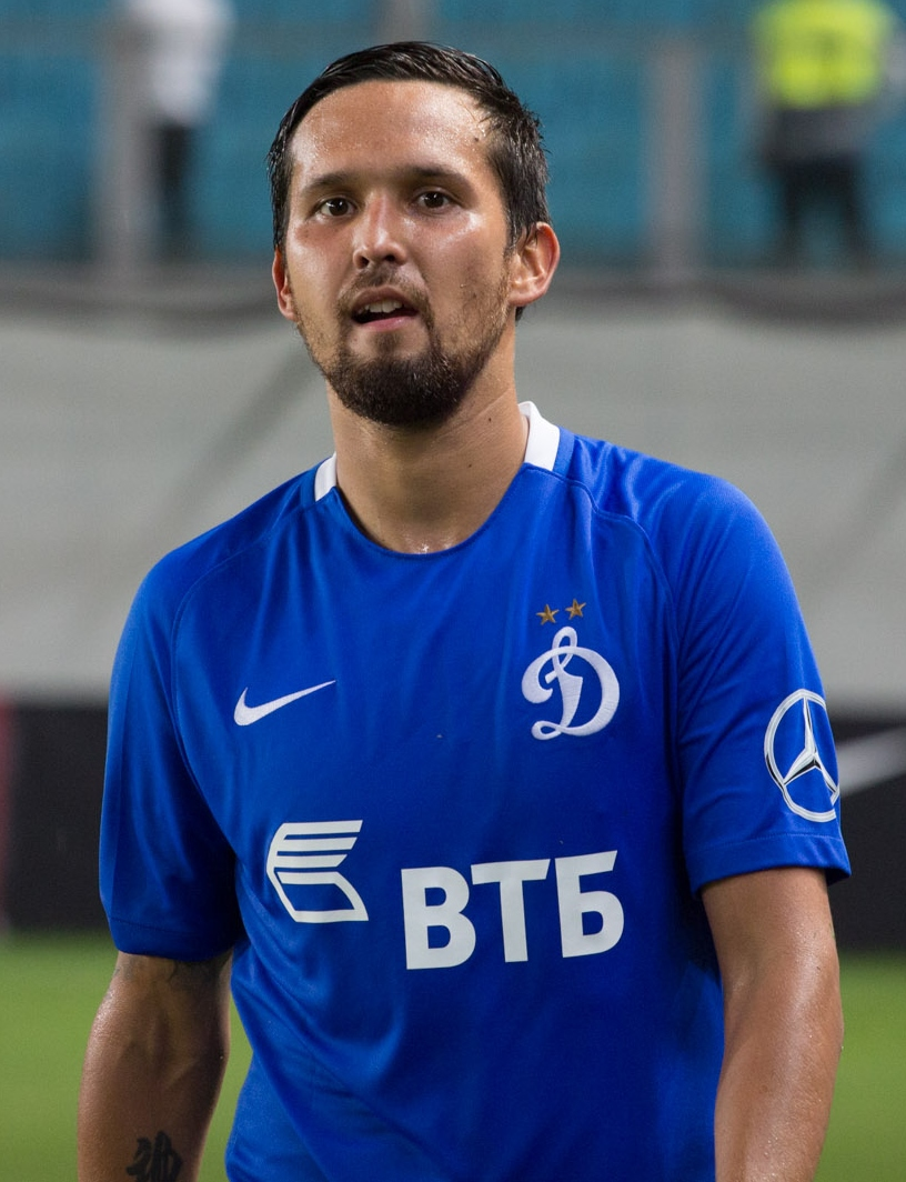 Alexander Zotov